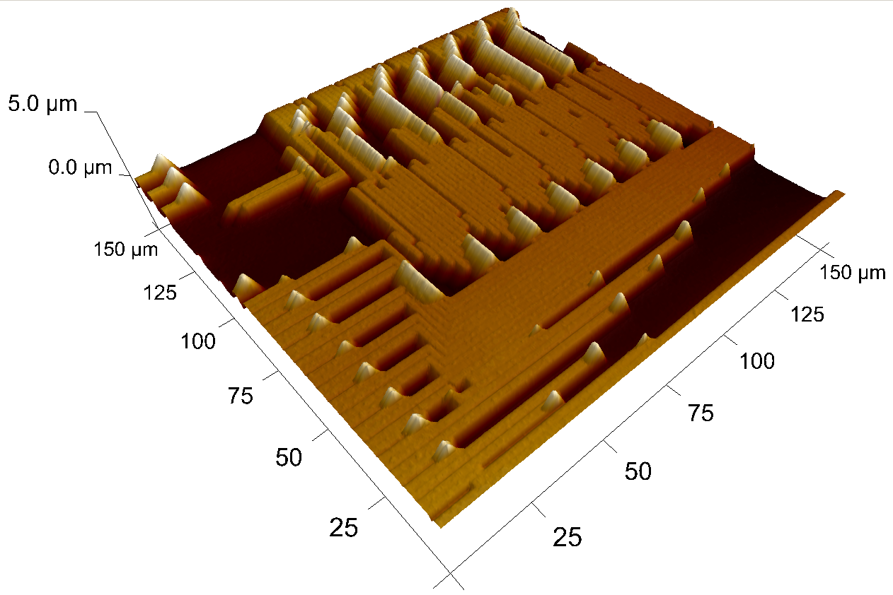 Part (150x150um) of pentium procesor core.